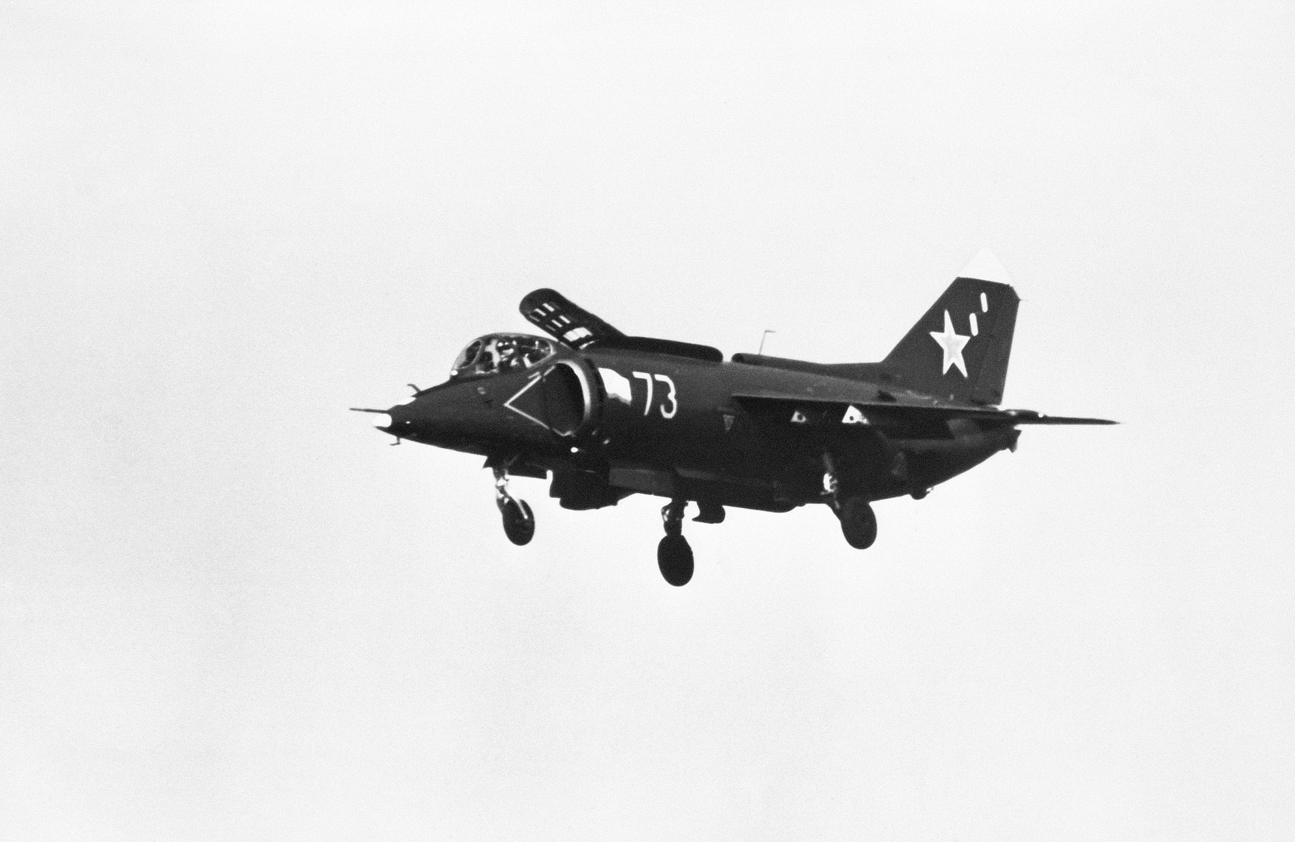 A left front view of a Soviet Yak-38 Forger aircraft with its landing gear down. (SUBSTANDARD)